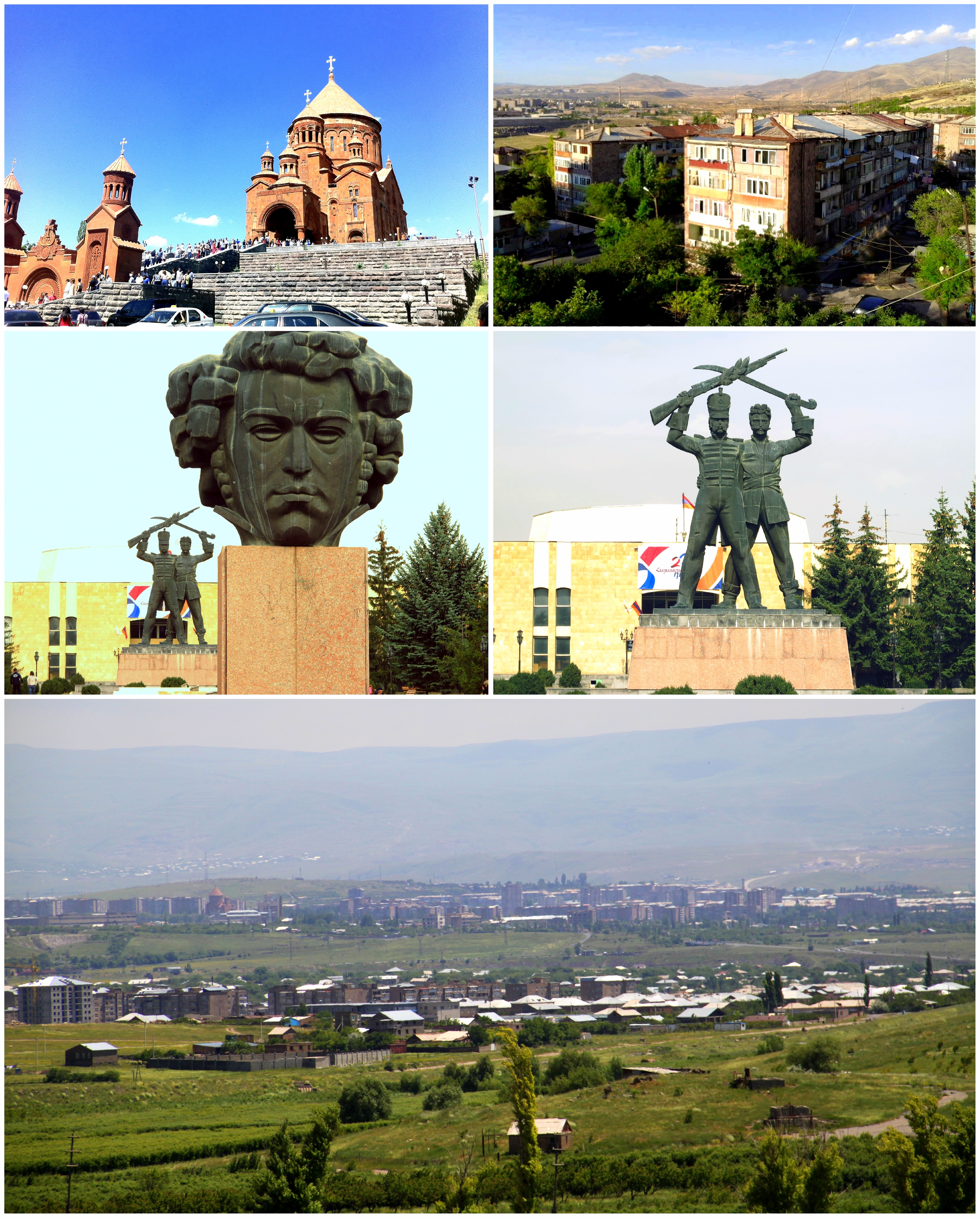 Abovyan town collection, Armenia.